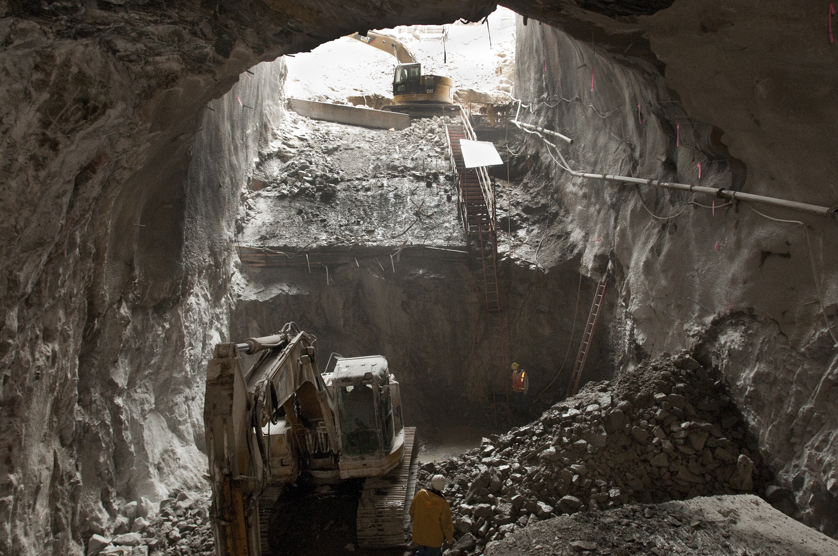 The MTA is extending the 7 subway line to a new station at 34th Street and Eleventh Avenue on the West Side of Manhattan. This photo shows the progress of the work as of January 26, 2012. Photo by Metropolitan Transportation Authority / Patrick Cashin.